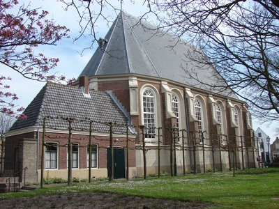 Church of Goedereede, Netherlands